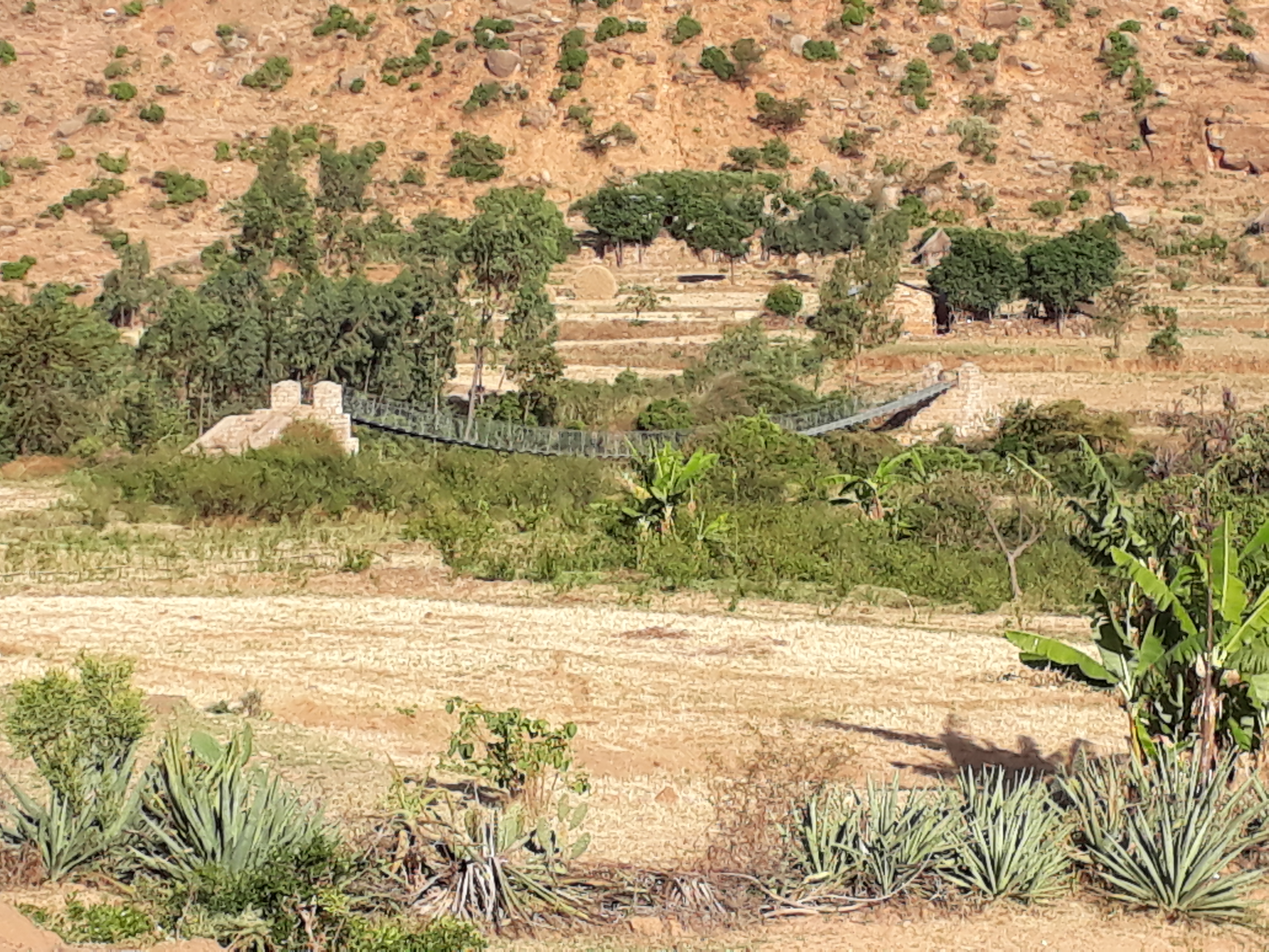 Rubaksa footbridge2